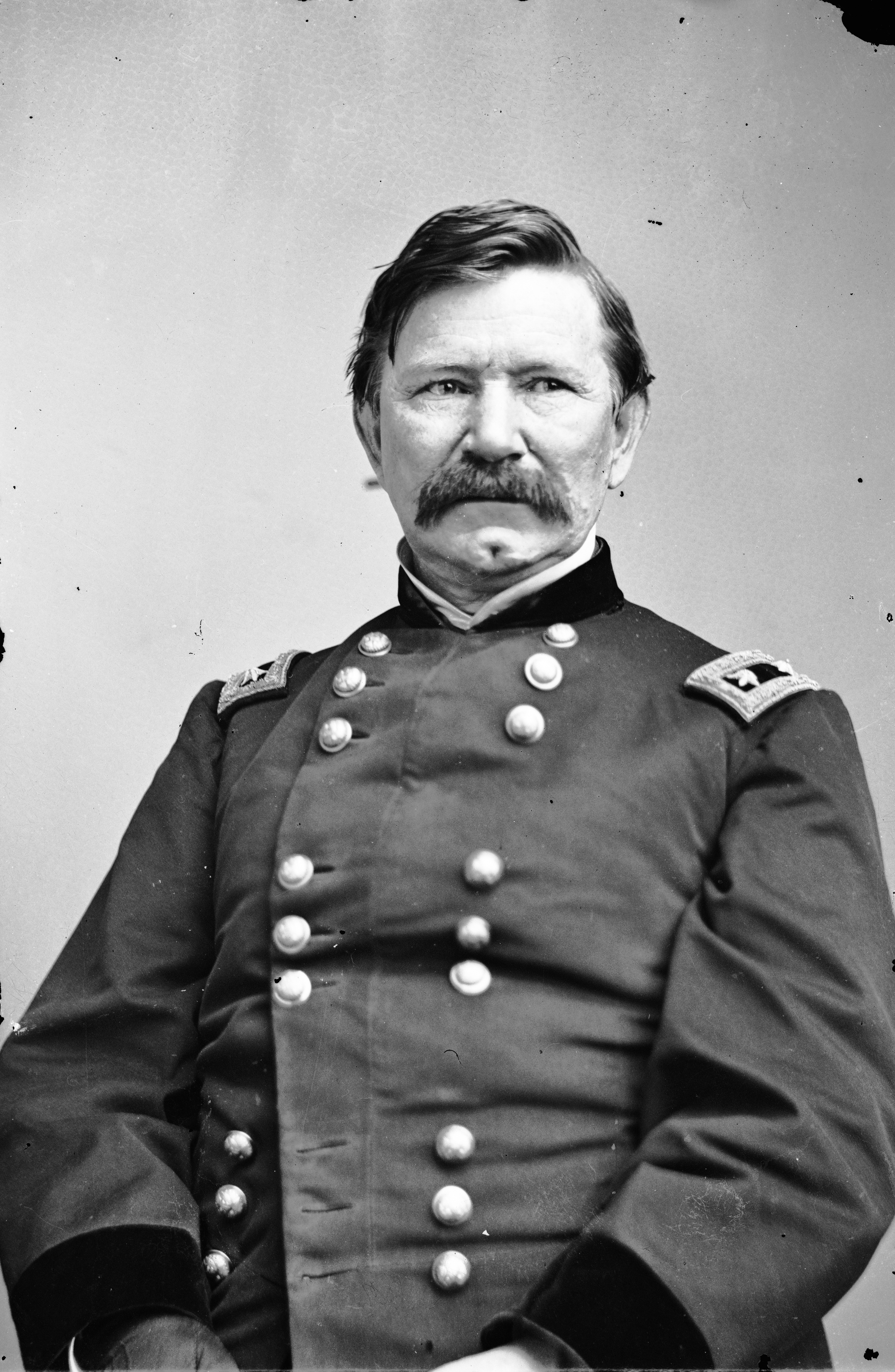 TITLE [Portrait of Maj. Gen. Robert C. Schenck, officer of the Federal Army]